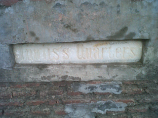 The remains of J E Inglis's Quarters in the Residency at Lucknow, India in 2014